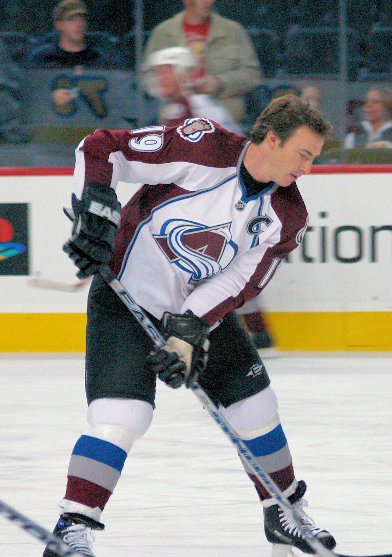 Joe Sakic warming up before a game. Calgary, Alberta